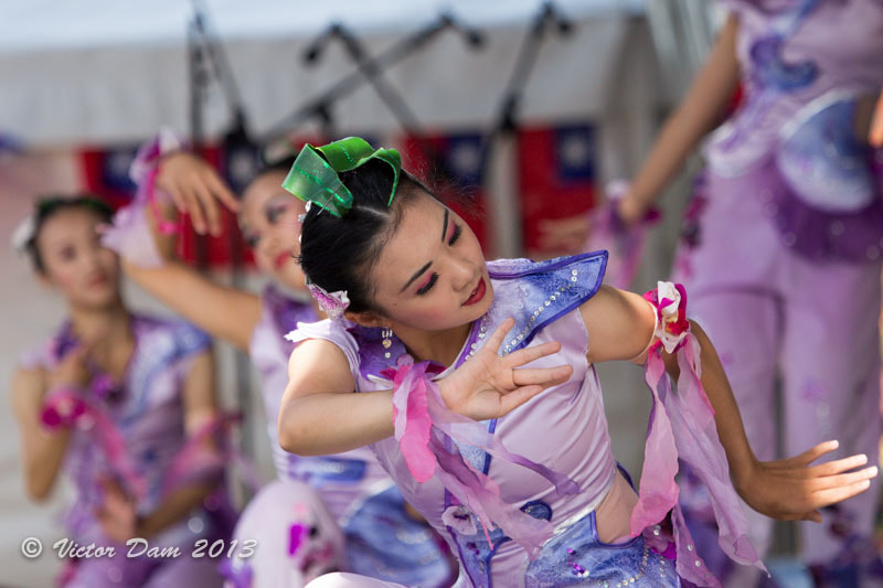 500px provided description: 2013 Taiwan Festival at Federation Square is a multicultural celebration of the Australian-Taiwanese culture, Arts and Entertaiment between different communities.